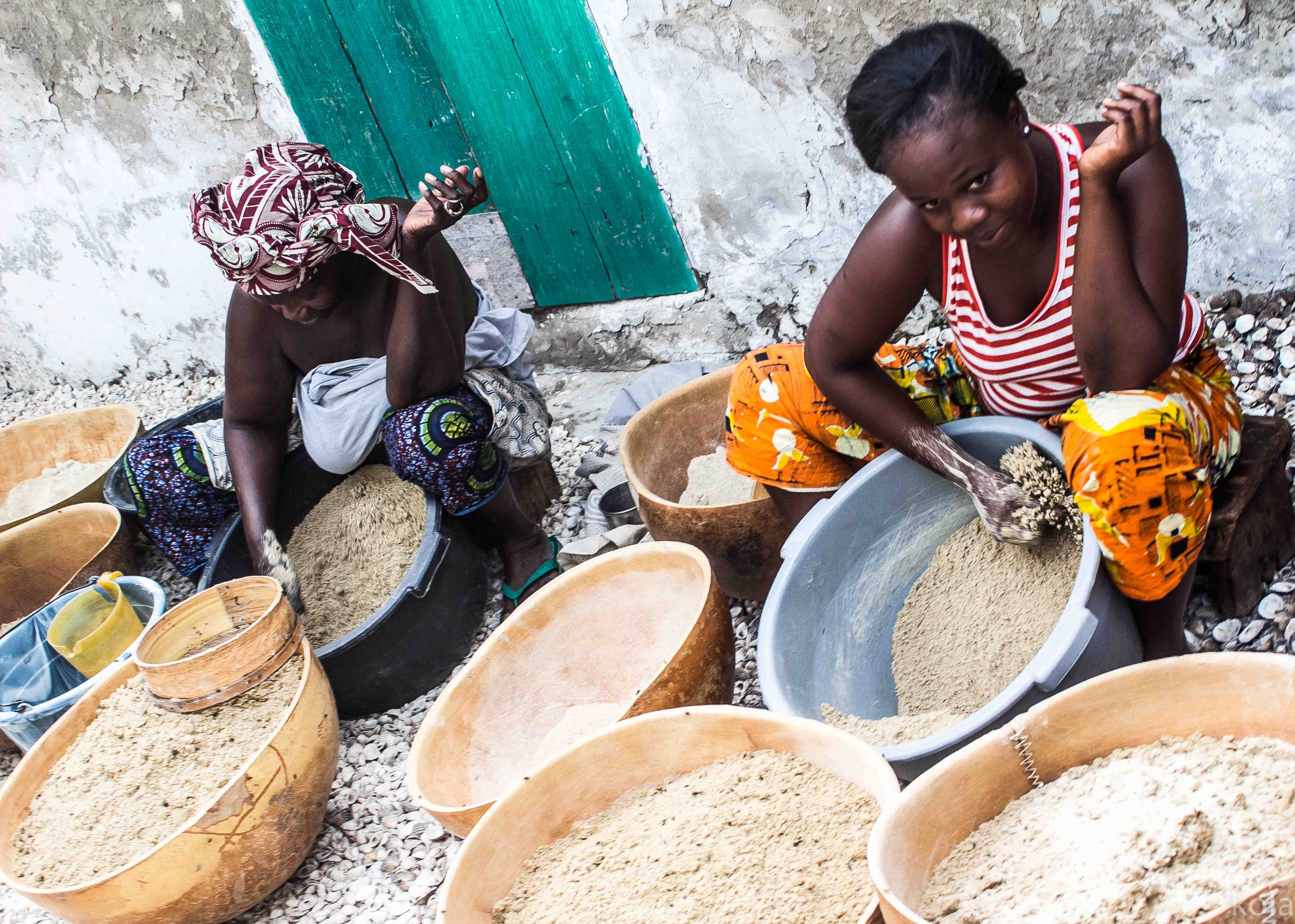 Fadiouth Island Salted Millet Couscous Fadiouth village sits on this island covered in seashells and is accessible from Joal (150km south of Dakar) via a long narrow wooden pedestrian bridge. The seerer, the Indigenous people who live here, have always been the main producers of sunnà millet and make their living from agriculture and fishing in the sea and lagoons. The local preparation of salted couscous is long and laborious, requiring at least two days to obtain a quality product. After finishing their domestic chores, the women come together towards the evening to prepare the millet to make the flour: the grain is husked in a wooden mortar and pestle, sifted and washed in the sea. It is then ground (using electric mills or by hand) and the resulting semolina is wet with seawater and worked by hand to transform it into tiny couscous pellets (covered with the dry semolina to keep them from sticking) that are then sifted. This process continues until all of the semolina has been transformed into tiny couscous beads. At this point, the product is stored in traditional gourd containers, covered with a cloth and left to ferment overnight. In the morning the women add powdered leaves of baobab - used as a thickener - and start cooking. This is an image of food from Senegal